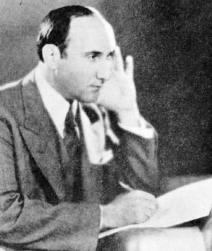 Photo of Dimitri Tiomkin.